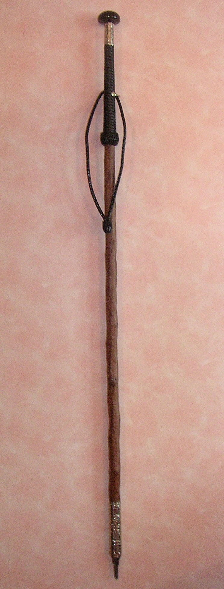 Makhila, basque walking stick (made in Laressore, France, by Aincart Bergara workshop). Photo by Jibi44